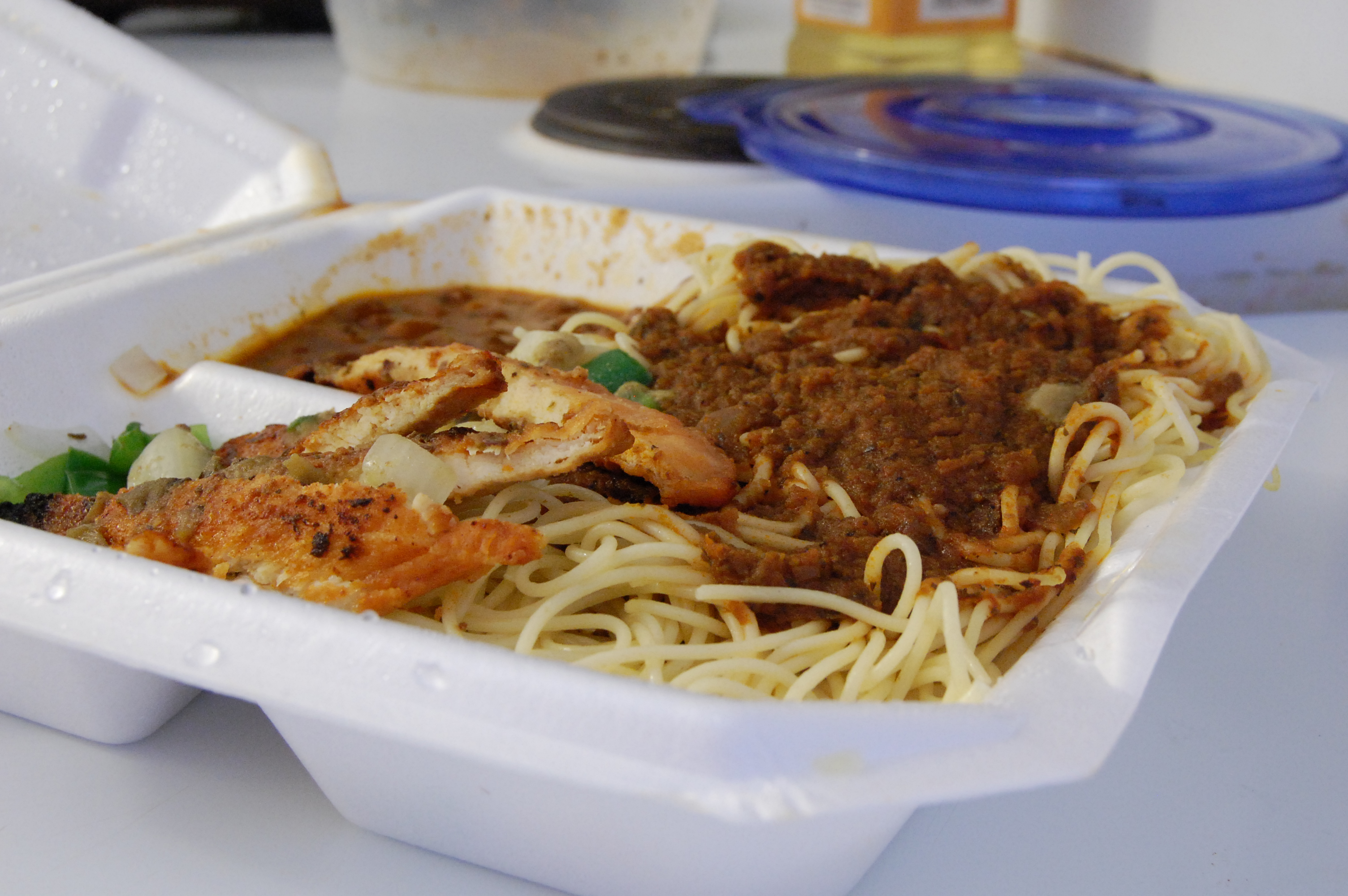 Chicken and spaghetti served at a Somali restaurant.